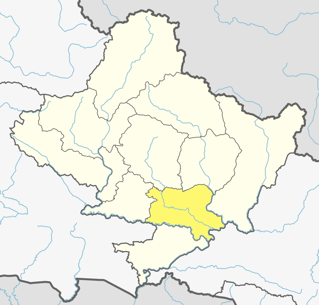 Tanhun District